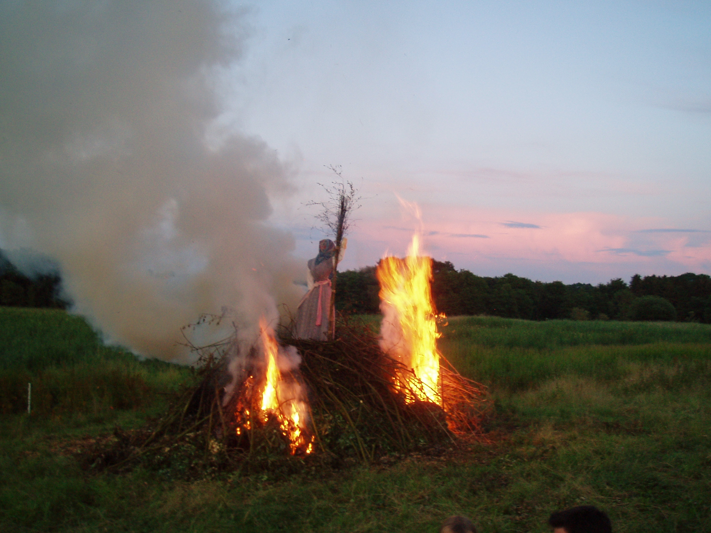 Danish midsummer bonfire with the traditional burning of a witch